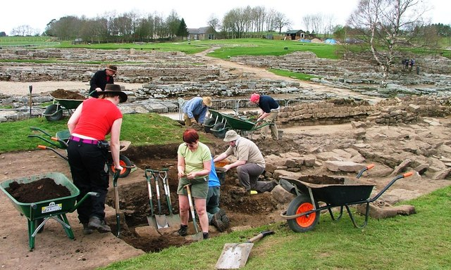 Archaeologists at Work in Vindolanda. The archaeologists are excavating an area within the confines of the 3rd century fort. Behind are the remains of the civilian settlement.